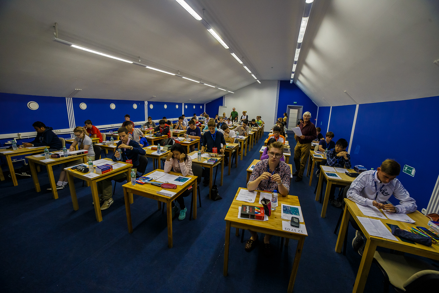 Written Response Test at the 12th International Geography Olympiad in Russia in August 2015.